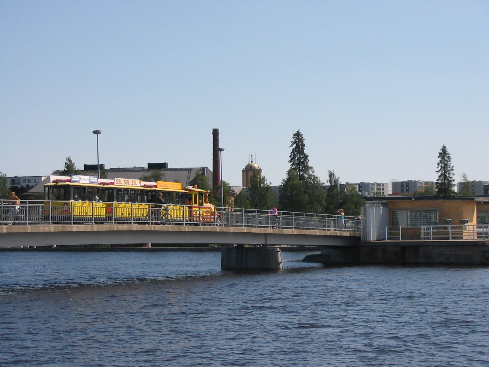 The sightseeing train "Potnapekka" on the bridge over the Oulu River in Oulu, Finland.